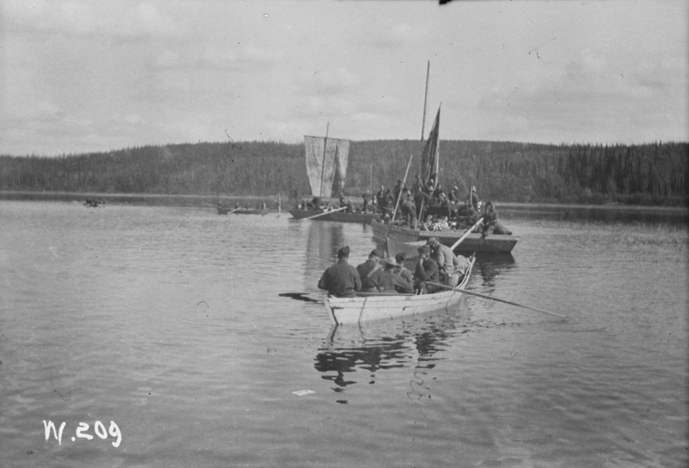 Yukon Field Force crossing Teslin Lake, 1898